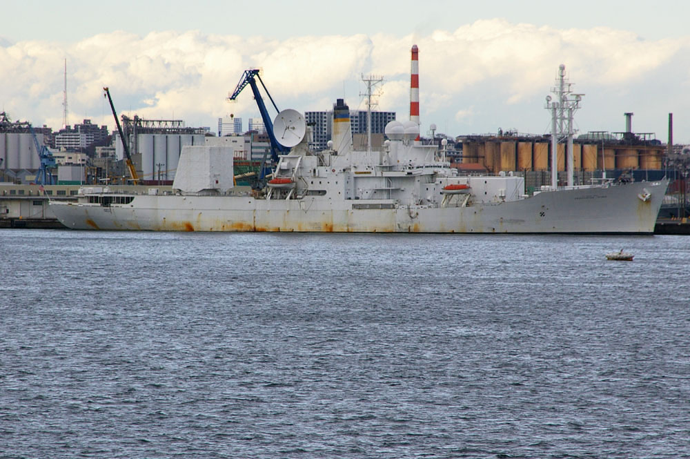 USNS Observation Island (T-AGM-23), Yokohama, Japan.